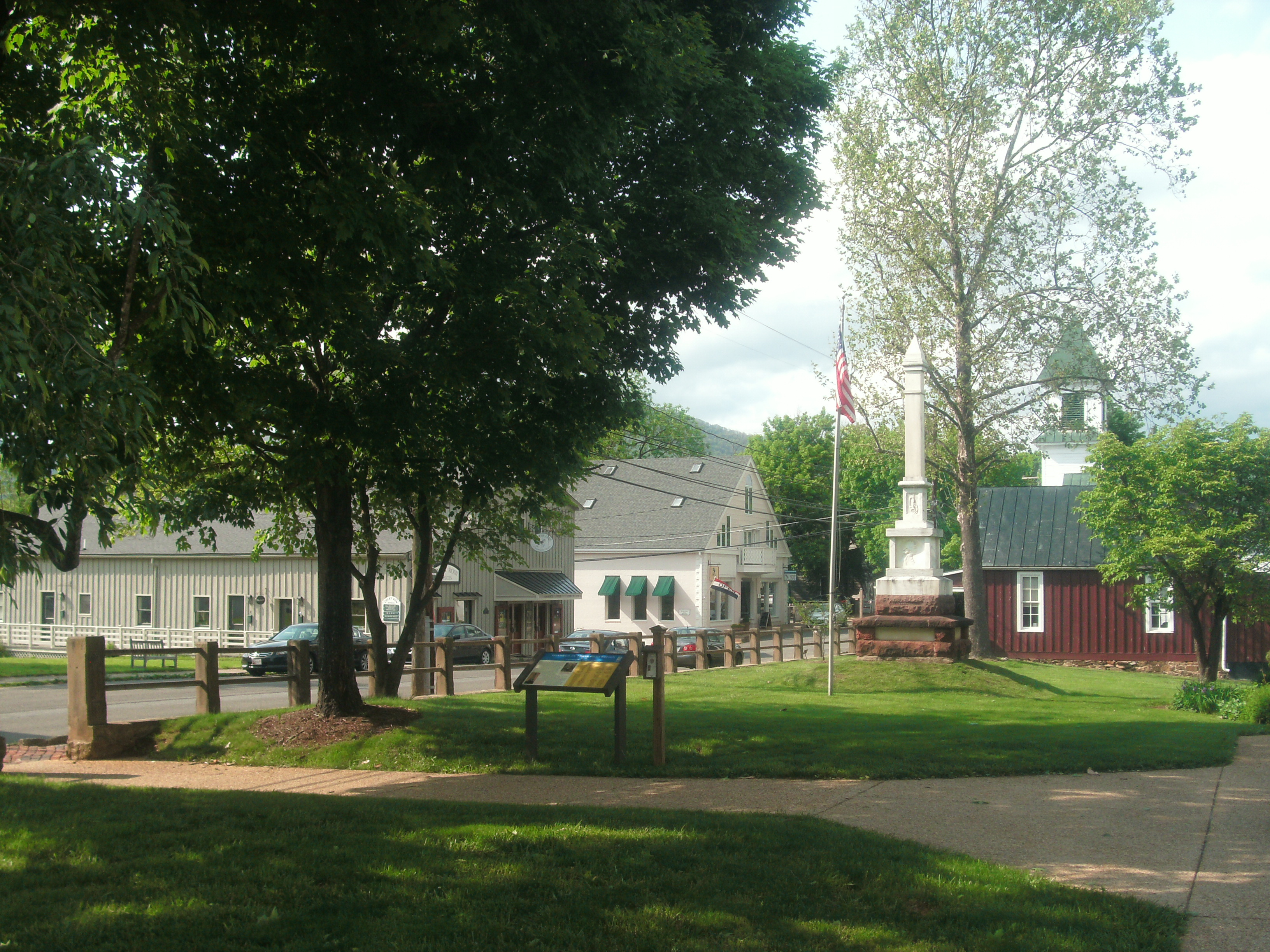 Taken by me in May, 2016 GEDSC DIGITAL CAMERA